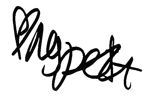 Regina Spektor's autograph, taken from a signed ticket from a 2009 concert in Italy